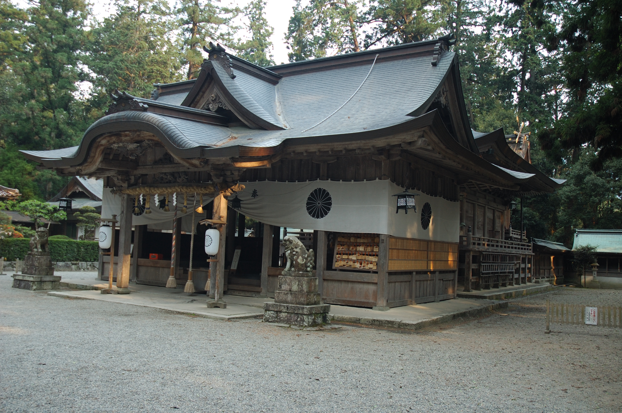 the front shrine